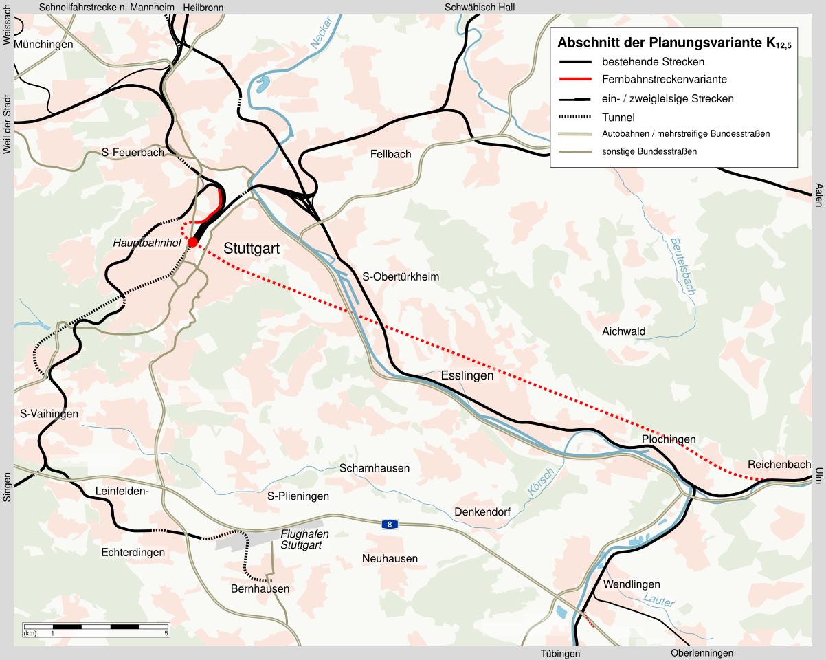 A map of the variant "K 12,5" for a Stuttgart-Ulm high-speed railway line. A ~20 km tunnel between Stuttgart and the area of Plochingen, with a four-track station underneath a 16-track terminus (to be kept), was a key element of this variant. While only the greater Stuttgart area is depicted on the map, this line would have continued to Ulm. The route is derived from the plans for the official approval process. The underlying map is based on Karte_Stuttgart_21_aussen_Kartenwerkstatt.svg, a public domain map by K. Jähne (kjunix).While existing rail lines are depicted in black, the new high-speed line is in red. Dotted lines are used for tunnels.